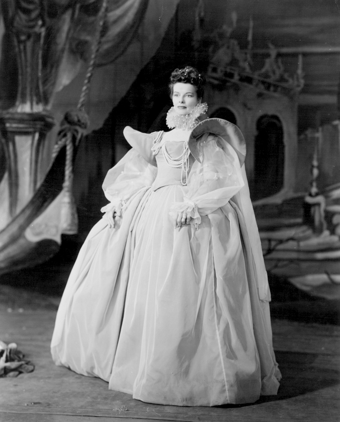 Photo of Katharine Hepburn {Rosalind) from the Theatre Guild 1951 production of As You Like It.